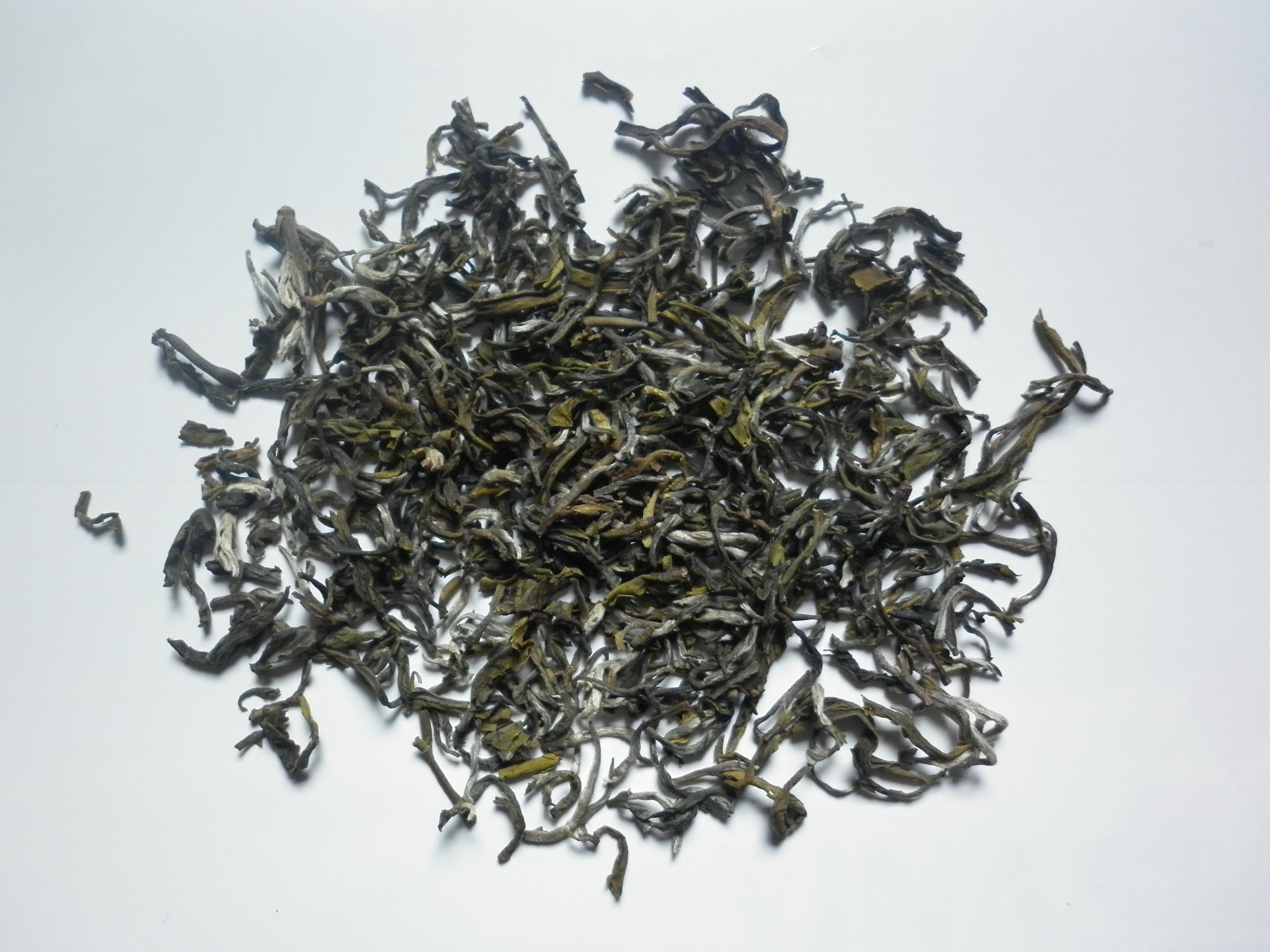 Vietnamese Shan tuyet tea, taken in Hanoi, Vietnam